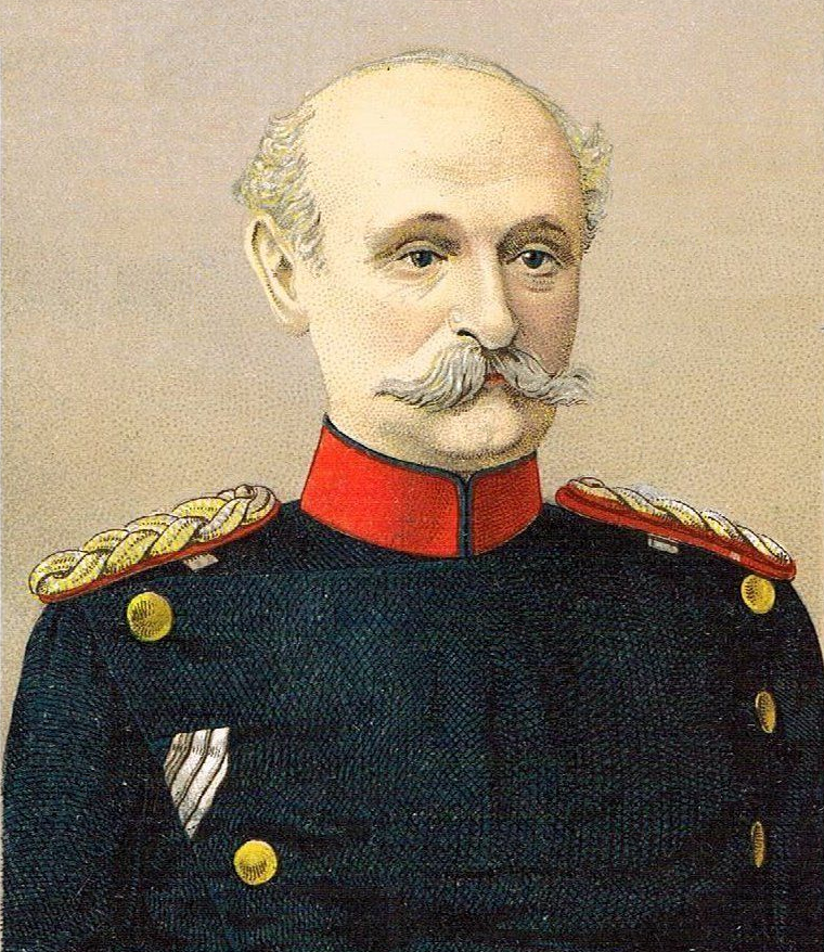 Gideon von der Decken Generalmajor (1828-1892)